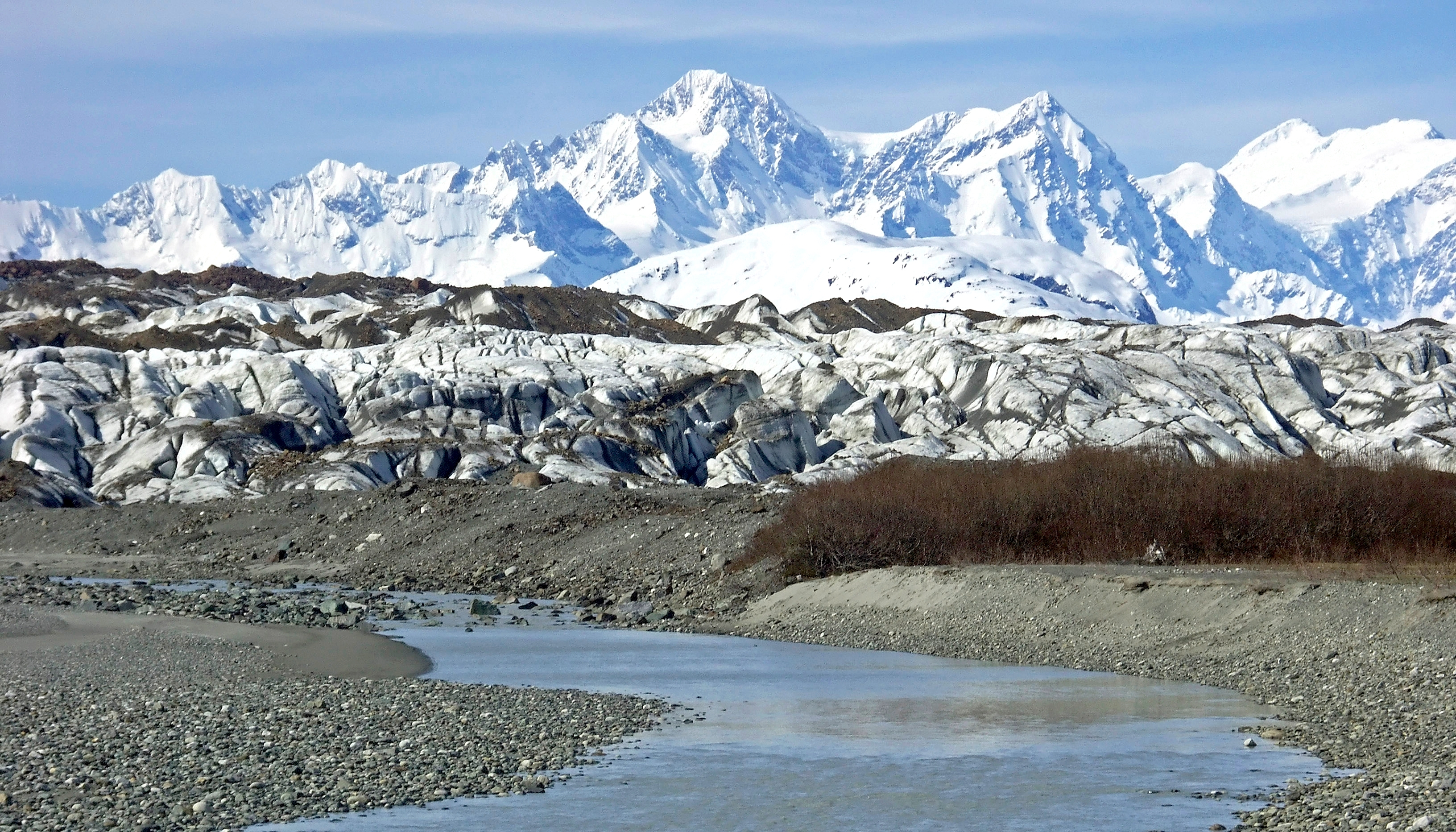 Mt. La Perouse beyond the Brady Glacier. Glacier Bay National Park, Alaska